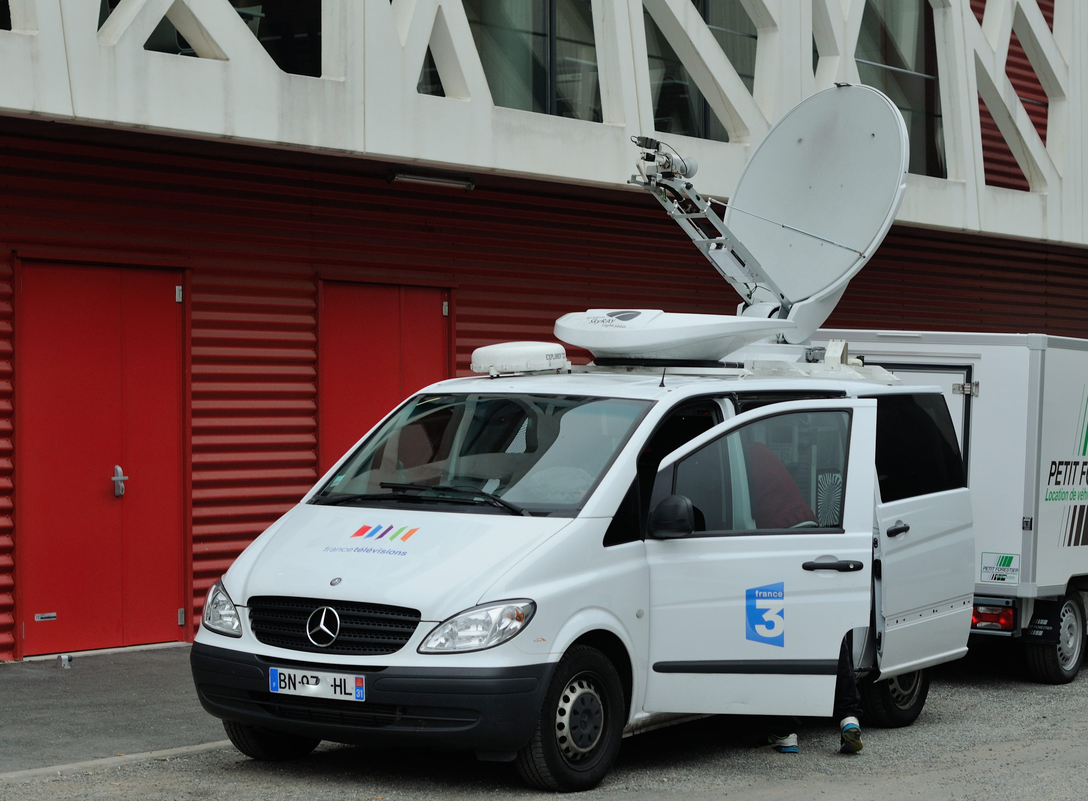 France 3 Midi-Pyrénées's outside broadcasting vans covering the protest at UT2J.